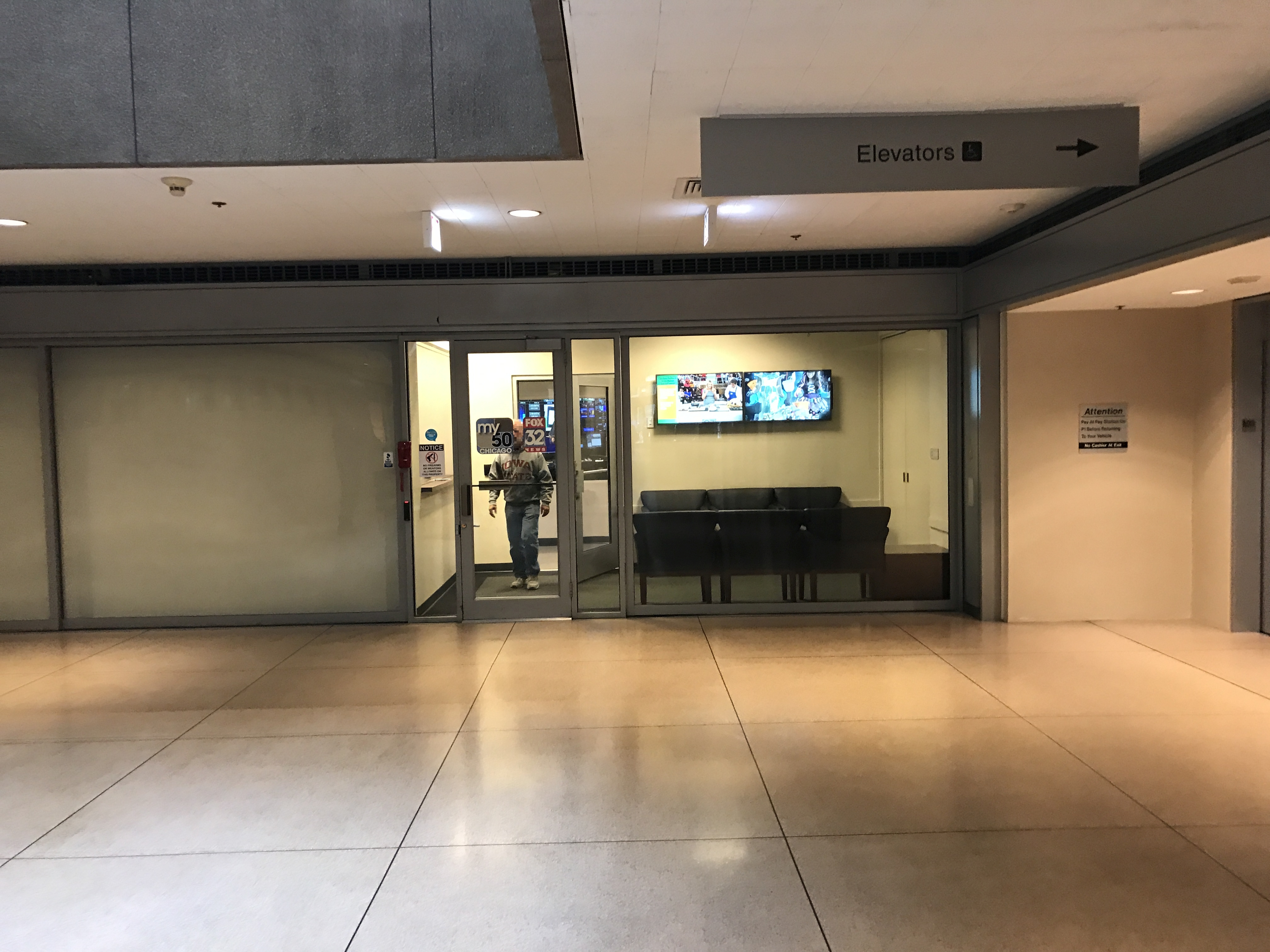 The entrance to the studios for WFLD and WPWR in the Michigan Plaza building in downtown Chicago.